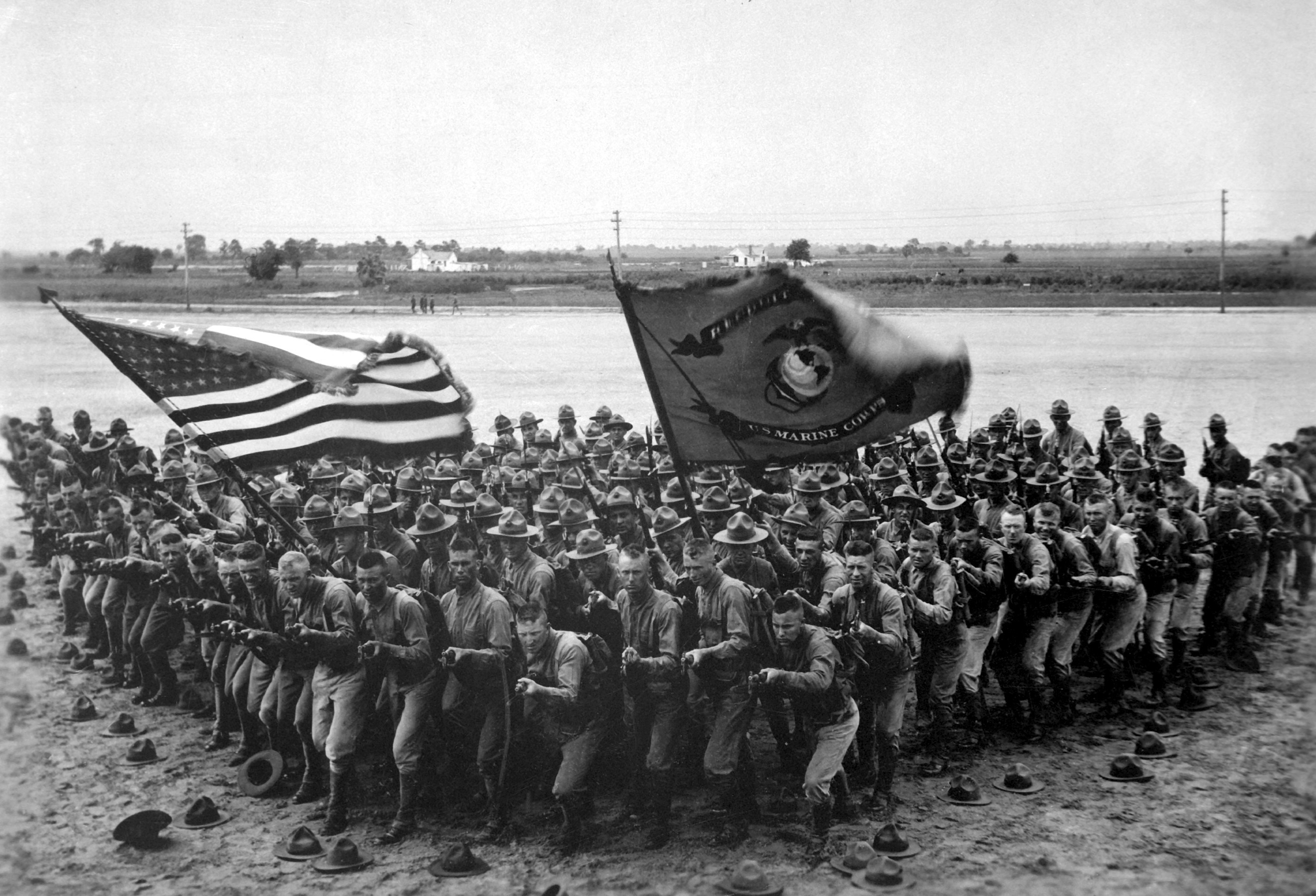 "First to Fight": A group of U.S. Marines, 1918. USMC Recruiting NARA FILE #: 165-WW-321A-2 WAR & CONFLICT BOOK #: 468